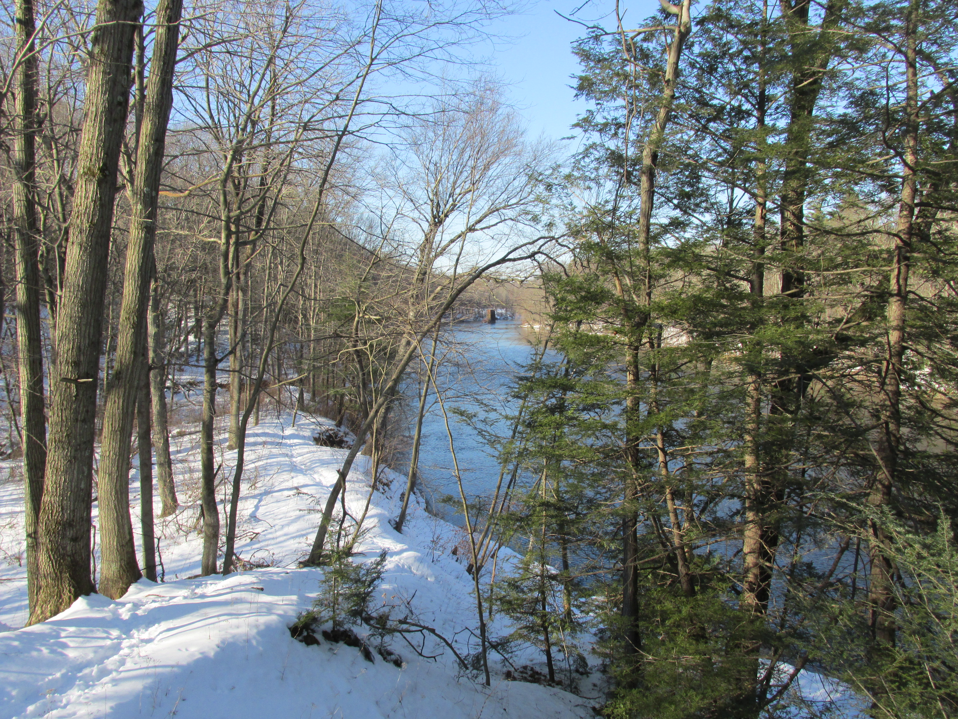 Westfield River, Robinson State Park, Agawam Massachusetts